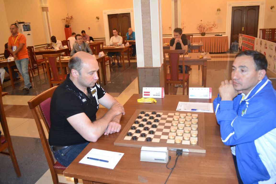 Party Artykov - Valneris in Round 3 World Draughts Championchip in Ufa 2013